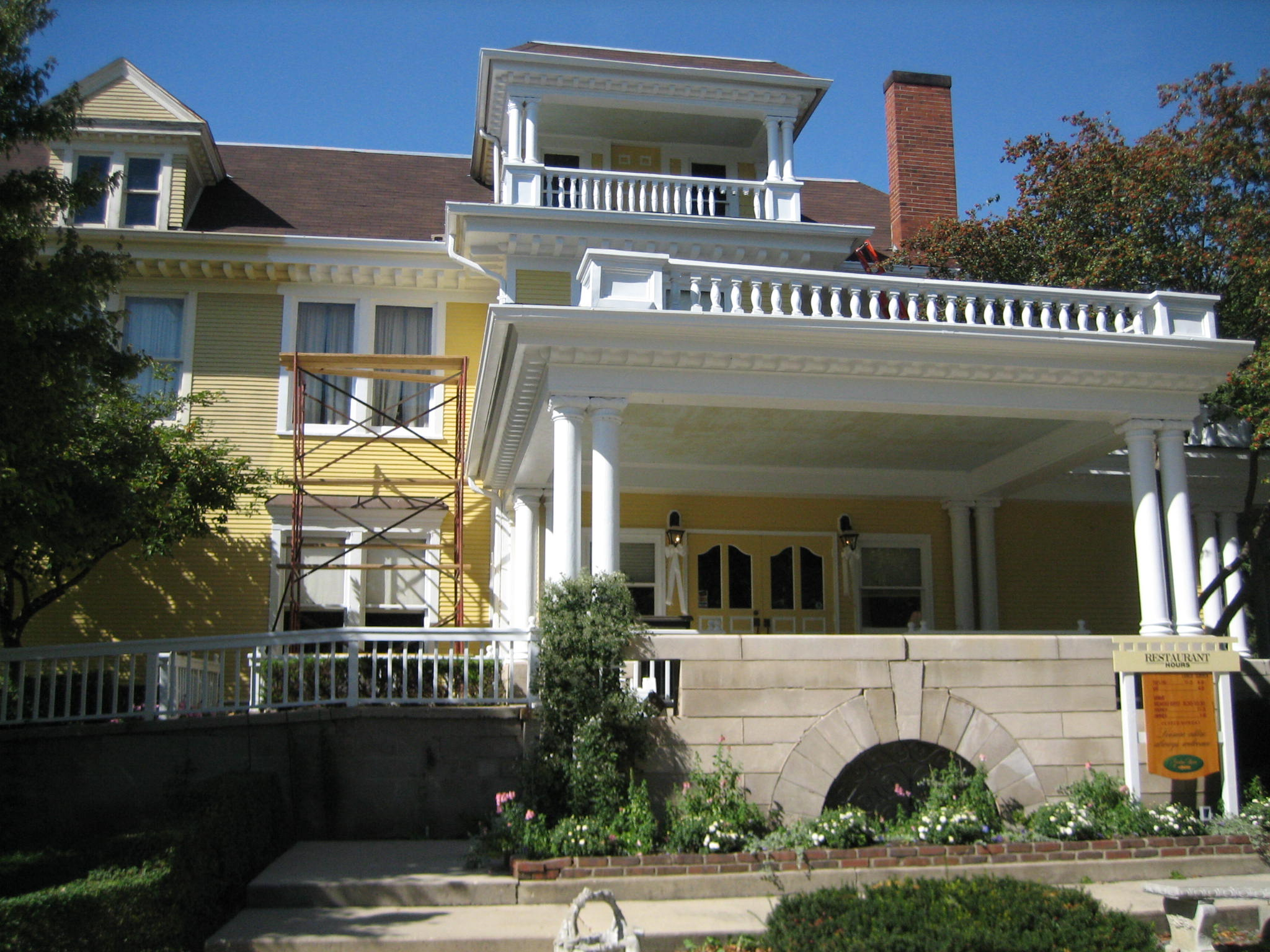 John R. Oughton House, Dwight, Illinois, USA. U.S. National Register of Historic Places.